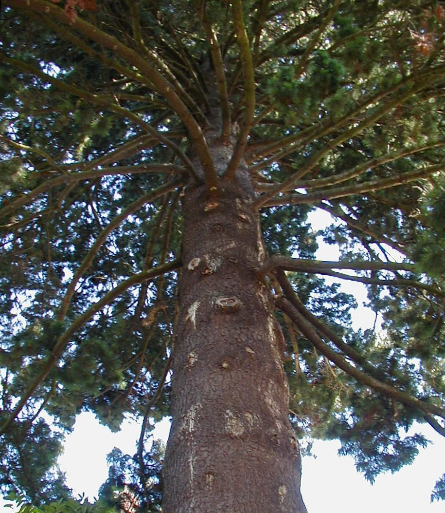 Jami Dwyer